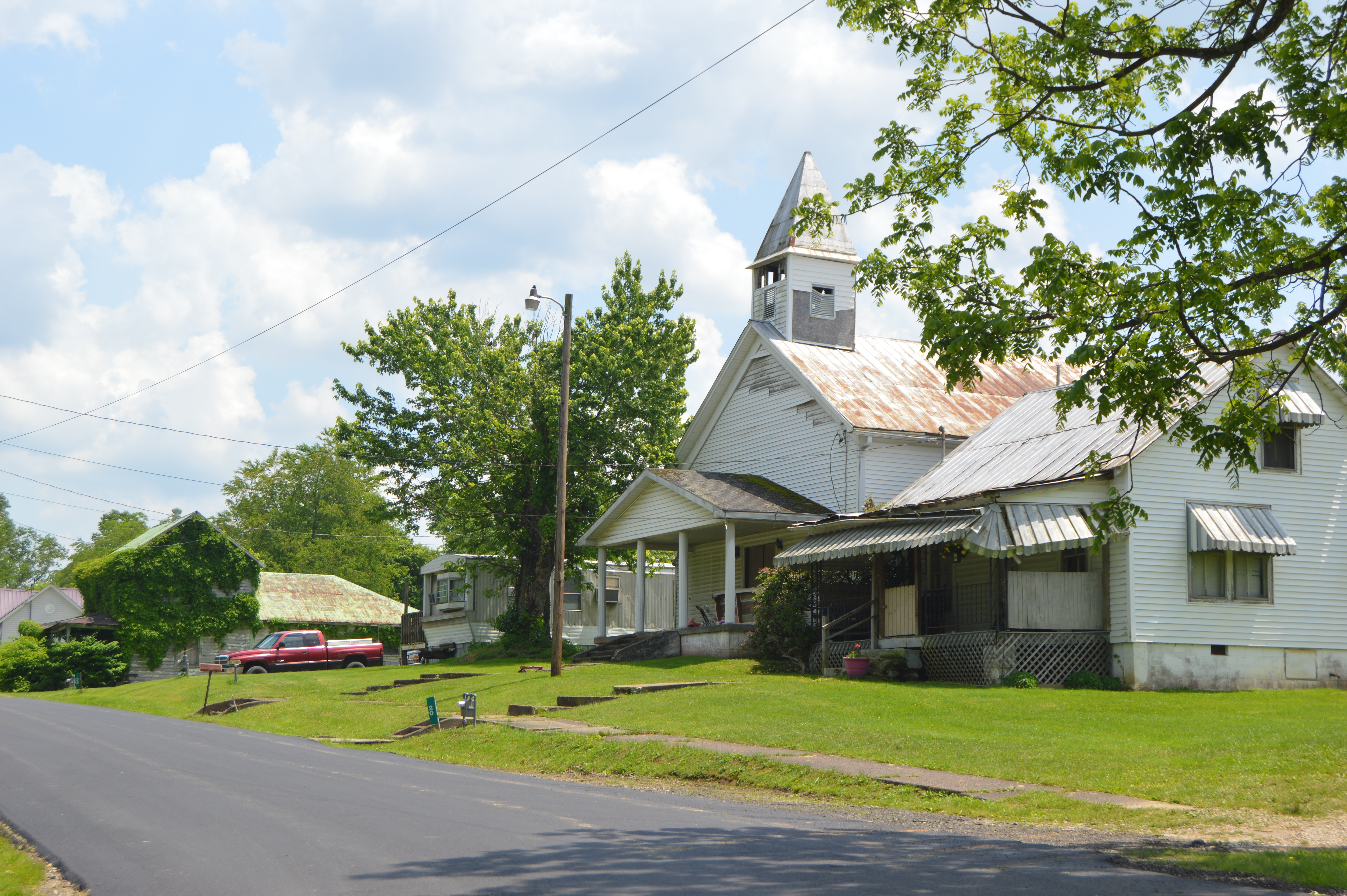 Buildings on County Route 24, seen looking east from West Virginia Route 14, at Palestine in Wirt County, West Virginia, United States.